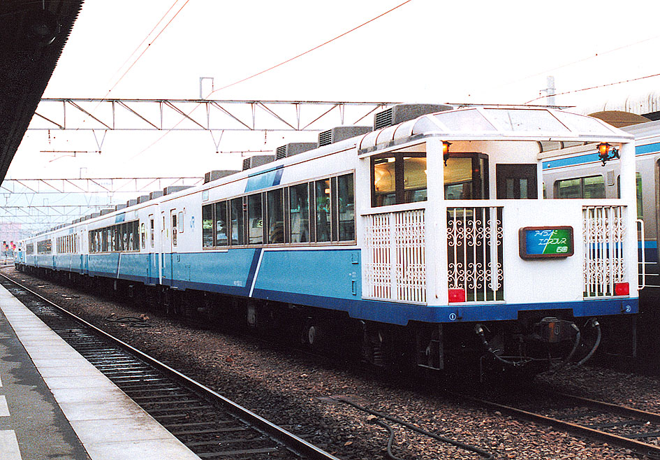 JR shikoku 50 series passenger cars for the Island Express Shikoku train